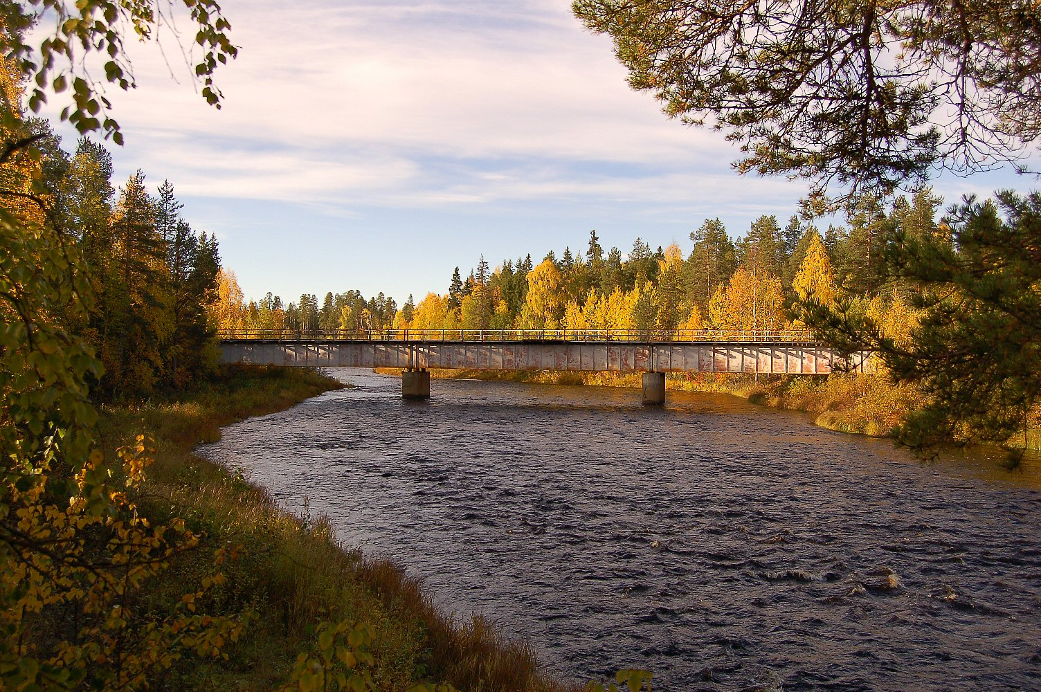 Naamijoki River railway bridge, Pello, Finland